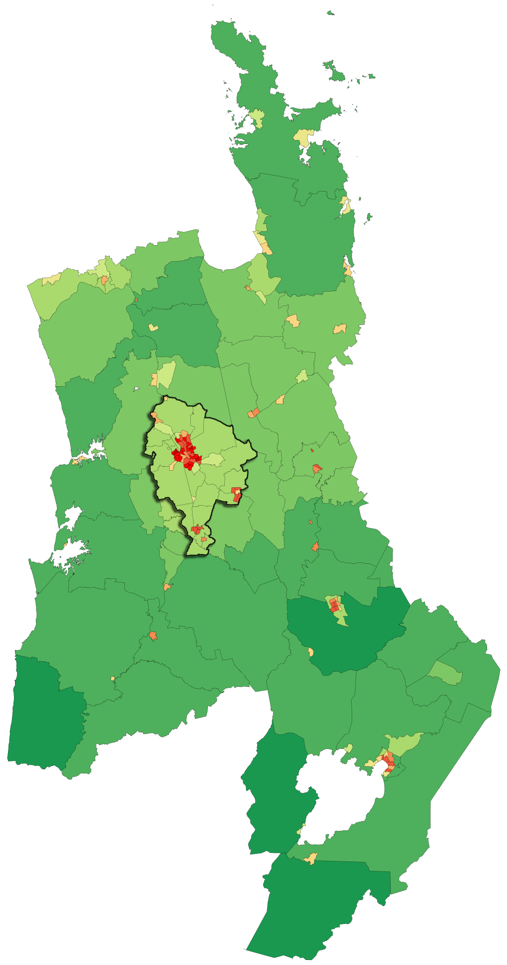 Map showing population density of a region of New Zealand (by Statistics NZ Area Unit) as of the 2006 census, with a highlight on the Hamilton Urban Area.